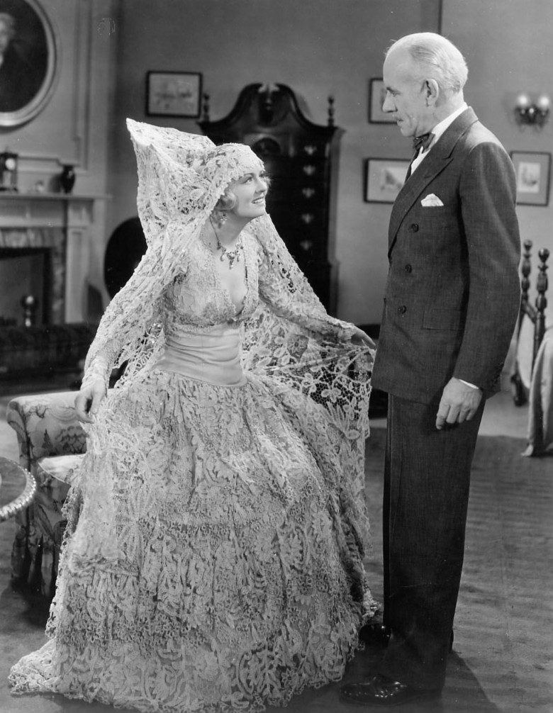 Photo from the 1931 film The Bargain.